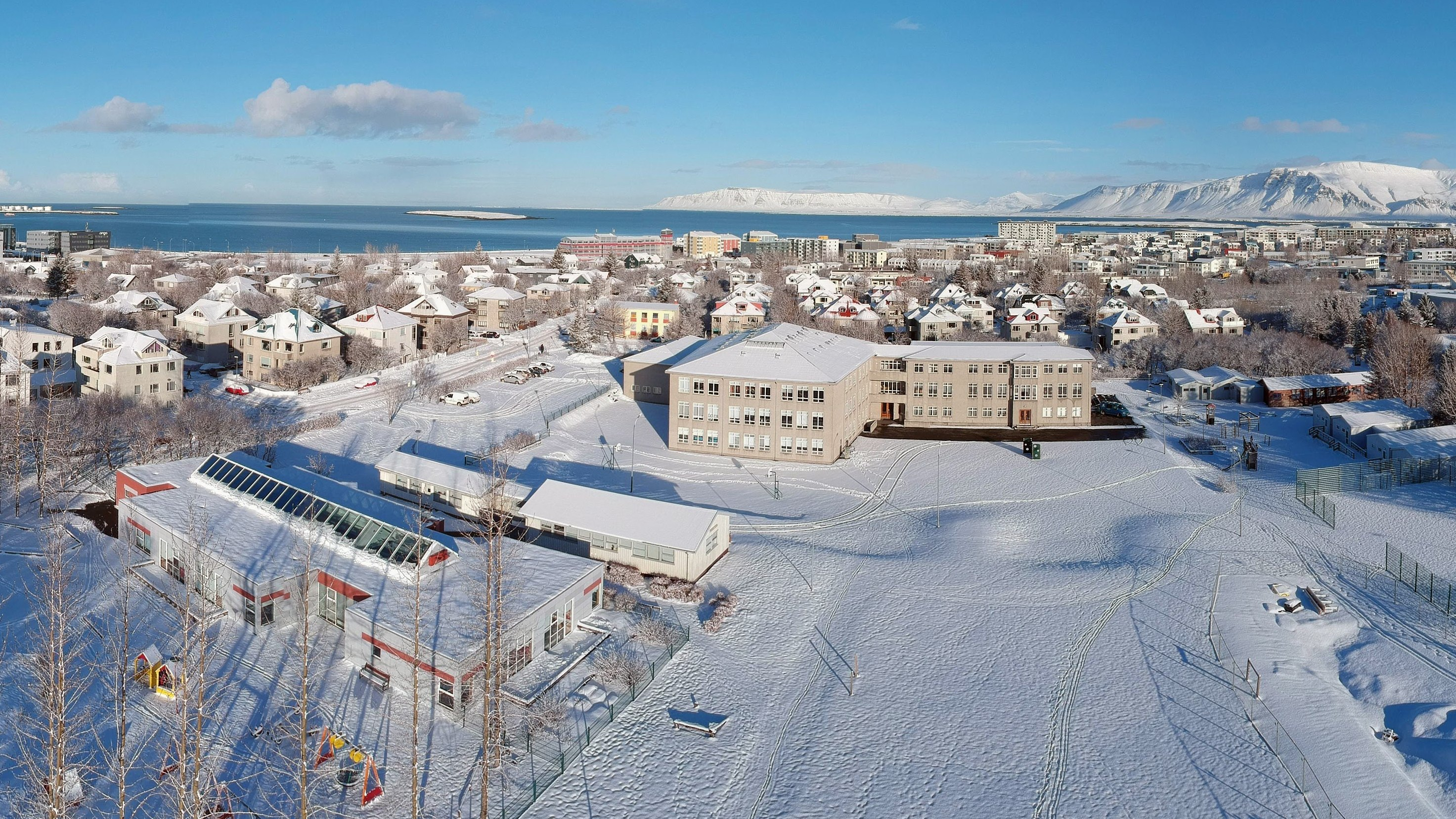 Laugarnesskóli primary school in Reykjavík Iceland at middle right, kindergarten Hof at lower left.